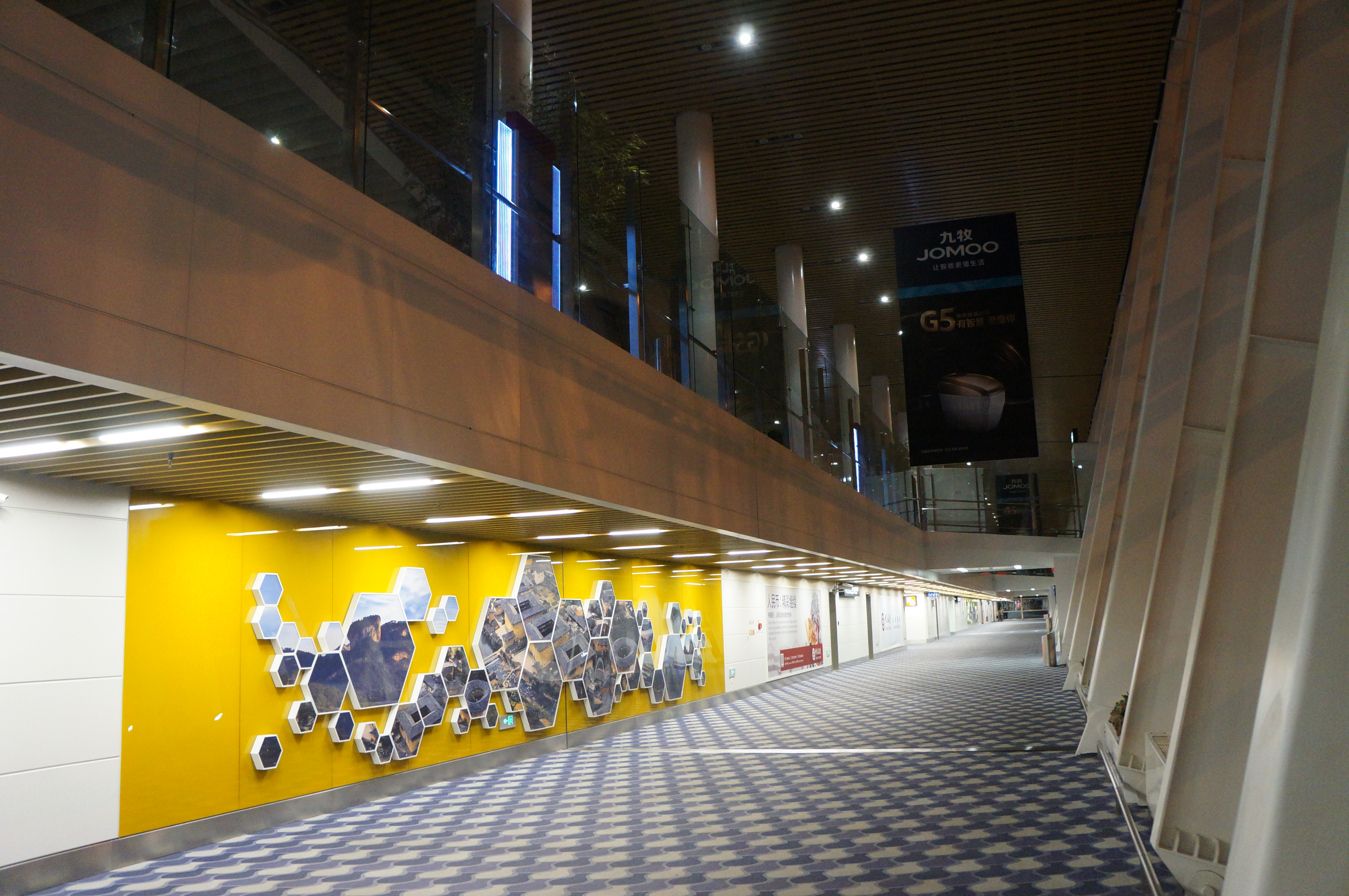 201708 Arrival area of XMN T4, is there any art wall here?